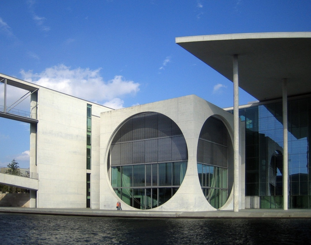 Berlin. The Marie-Elisabeth-Lueders-Haus. Partial view from west across the river Spree.